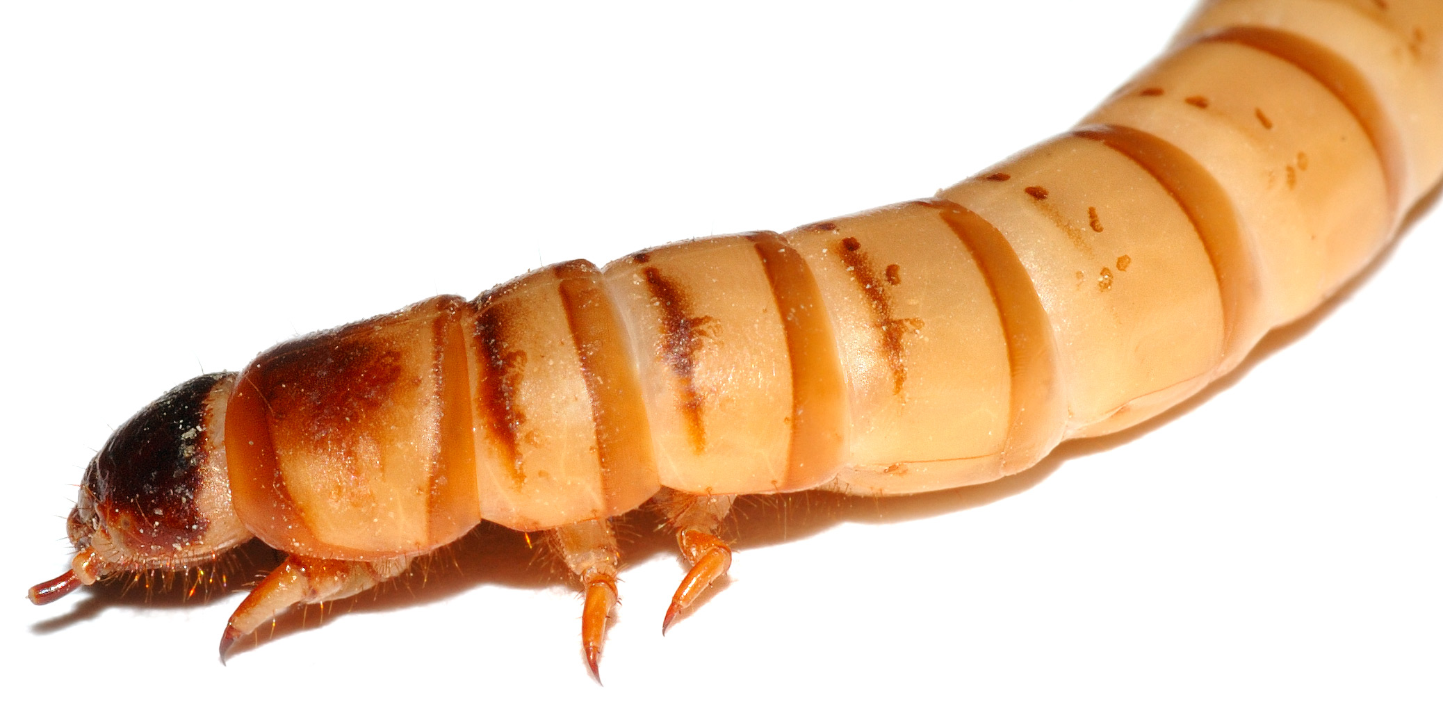 This image shows a 6 cm long Zophobas morio larva from the side.